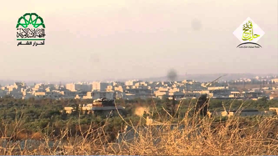 Collage of Ahrar al-Sham operations during the Syrian civil war.